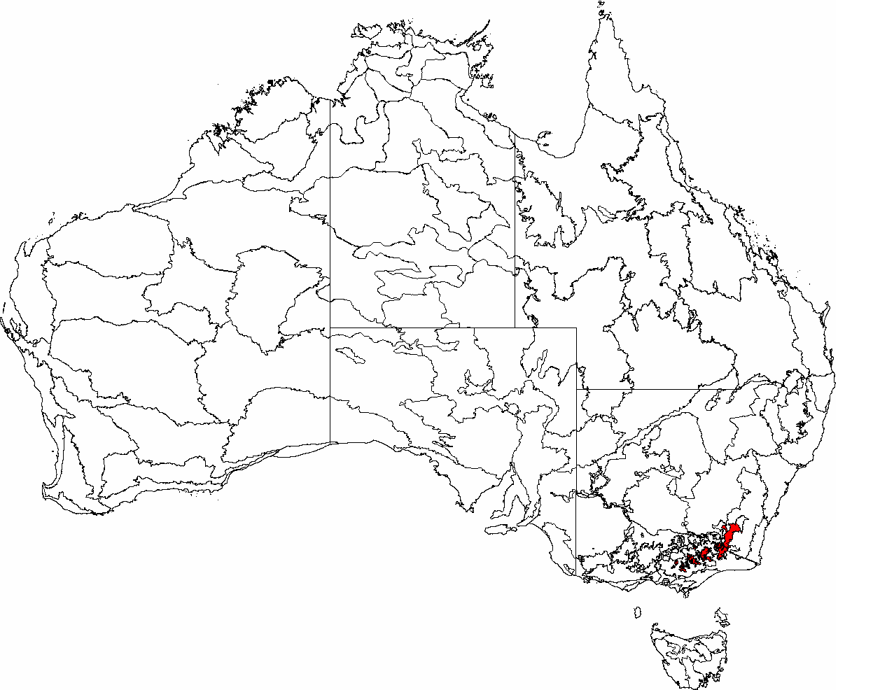 This is a map of the Interim Biogeographic Regionalisation of Australia (IBRA), with state boundaries overlaid. The Australian Alps region is shown in red.